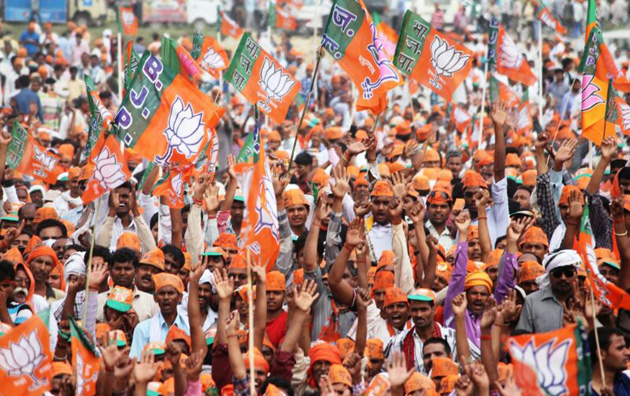 Supporters of Bharatiya Janata Party cheer at an election rally of Narendra Modi in Amethi Lok Sabha constitunecy in Uttar Pradesh